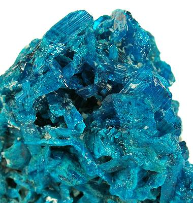 Caledonite, Diaboleite Locality: Mammoth-Saint Anthony Mine (Mammoth-St Anthony Mine; Mammoth Mine; St. Anthony Mine), St. Anthony deposit, Tiger, Mammoth District, Pinal County, Arizona, USA (Locality at ) Size: miniature, 5.0 x 4.2 x 2.6 cm Caledonite with Diaboleite The color of this caledonite is like nothing you could imagine, in person. It looks fake, like lab-grown copper sulphate but with metallic lustre. This is a frankly unbelieveable caledonite specimen of a richness I have never seen for sale on the market before. It is solid caledonite, with sharp crystals poking out all over, and with minor deeper blue Diaboleite crystals on the backside as a free bonus. It displays nicely, and presents so much stunning intense blue color that I had trouble believeing what I was looking at when I held this for the first time. My mind kept tellin gme it had to be caledonite on azurite - no caledonite could be so rich?! It is likely that this piece was mined prior to 1960. ex. American Museum of Natural History and was held since its deaccession by Larry Conklin in the Conklin Family Collection (specializing in such rarities in miiature size). It is an amazing example for the species but beyond that, an impressive, display-quality, historic US classic - its appreciably valuable from ANY angle of perspective in terms of history and significance and aesthetics, in other words. Even in the major Arizona collections, such a piece would be considered one of the capstones.